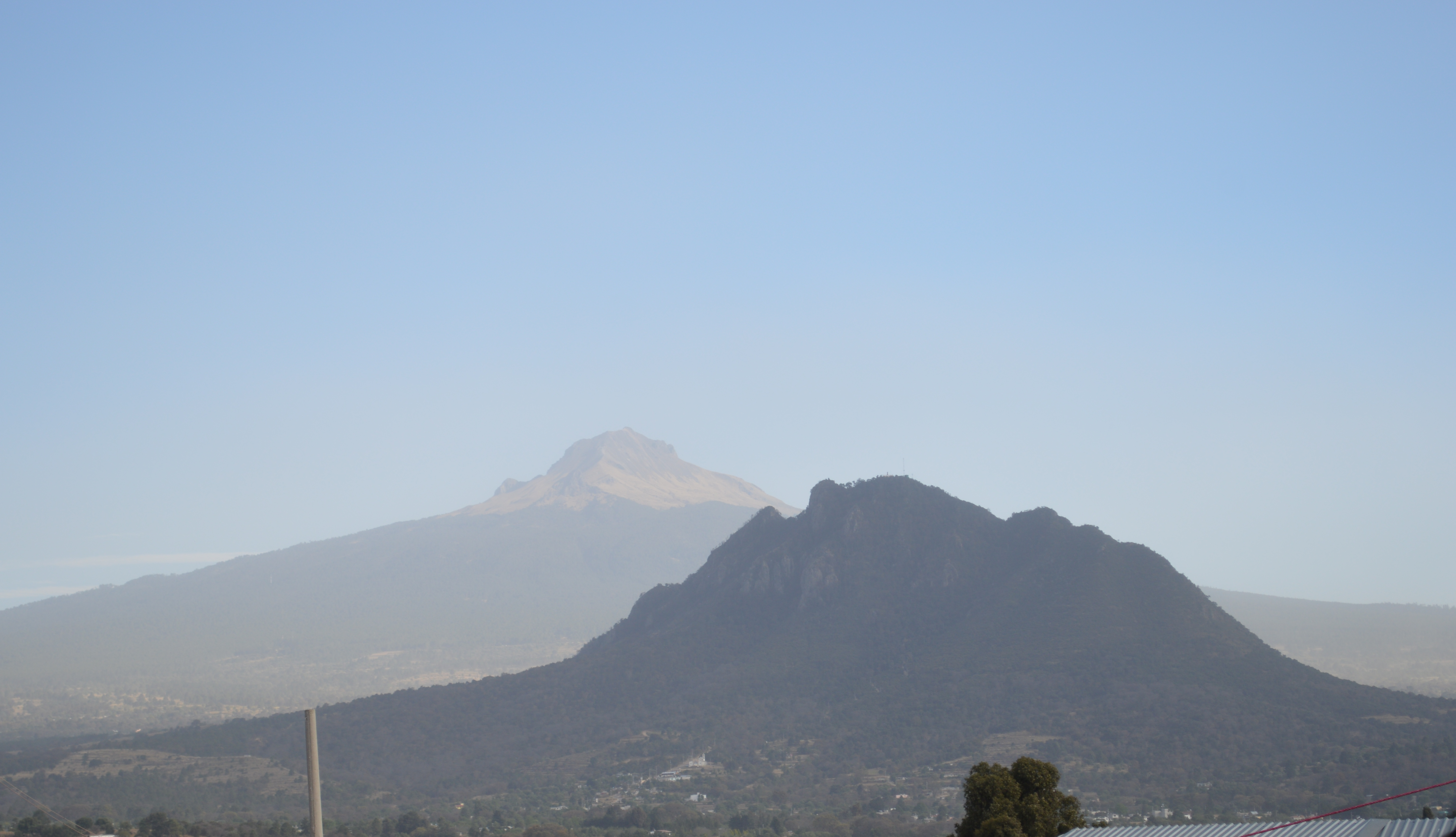 La Malinche volcano as seen from Ahuashuastepec, Tlaxcala, Mexico